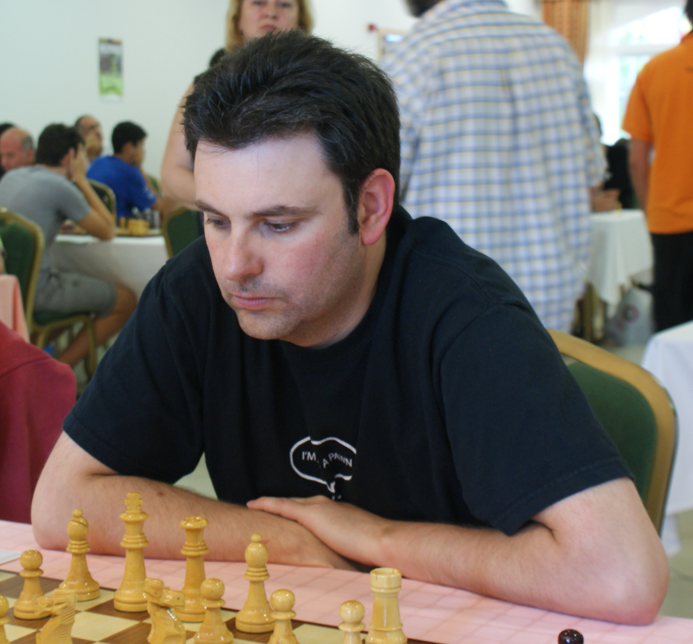 GM Óscar de la Riva Aguado Ronda 1 XXXVIII Open Internacional d'Andorra Hotel St Gothard Erts La Massana Ronda 1 XXXVIII Open Internacional d'Andorra Hotel St Gothard Erts La Massana